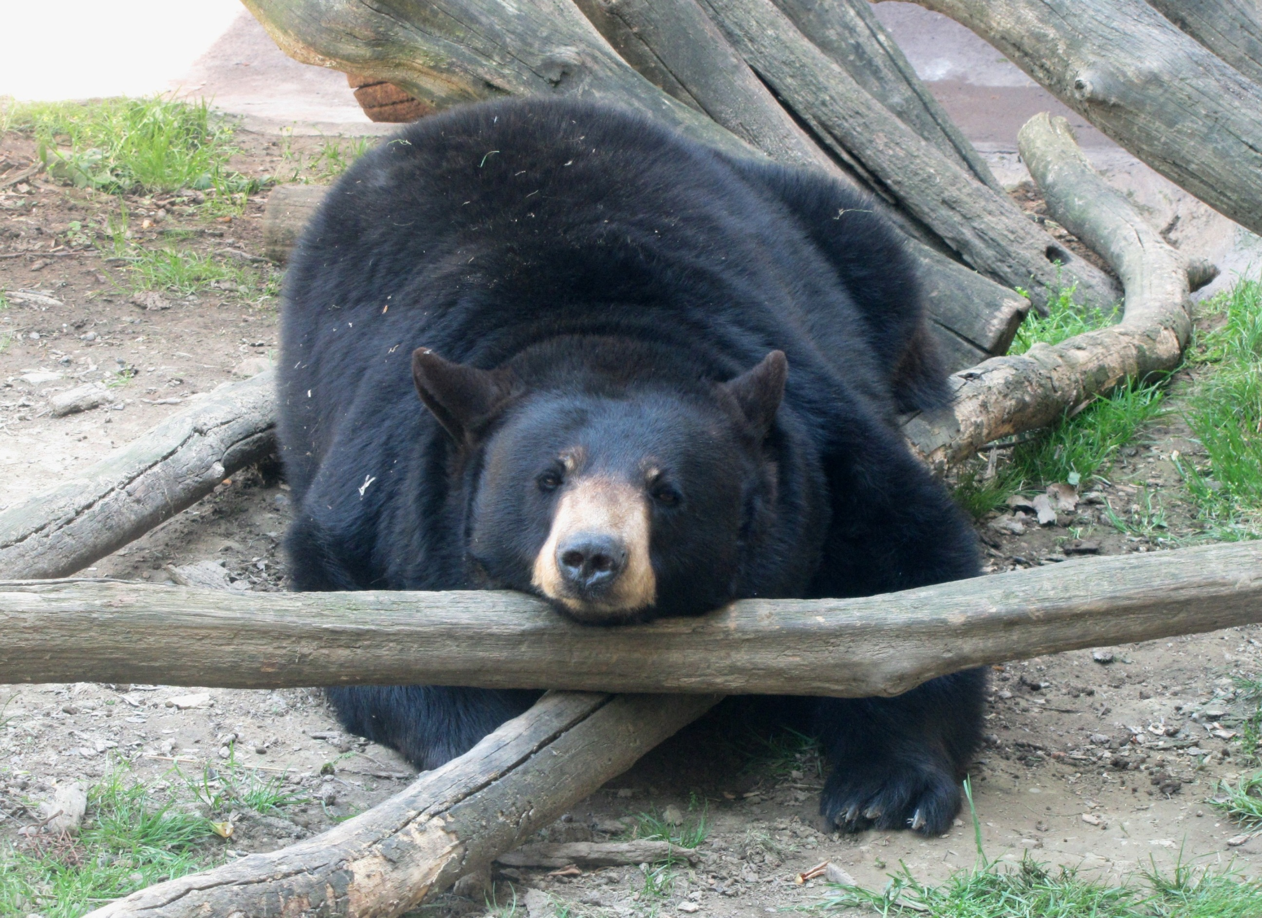 Captive black bear resting at Ober Gatlinburg in Gatlinburg, Tennessee, USA.